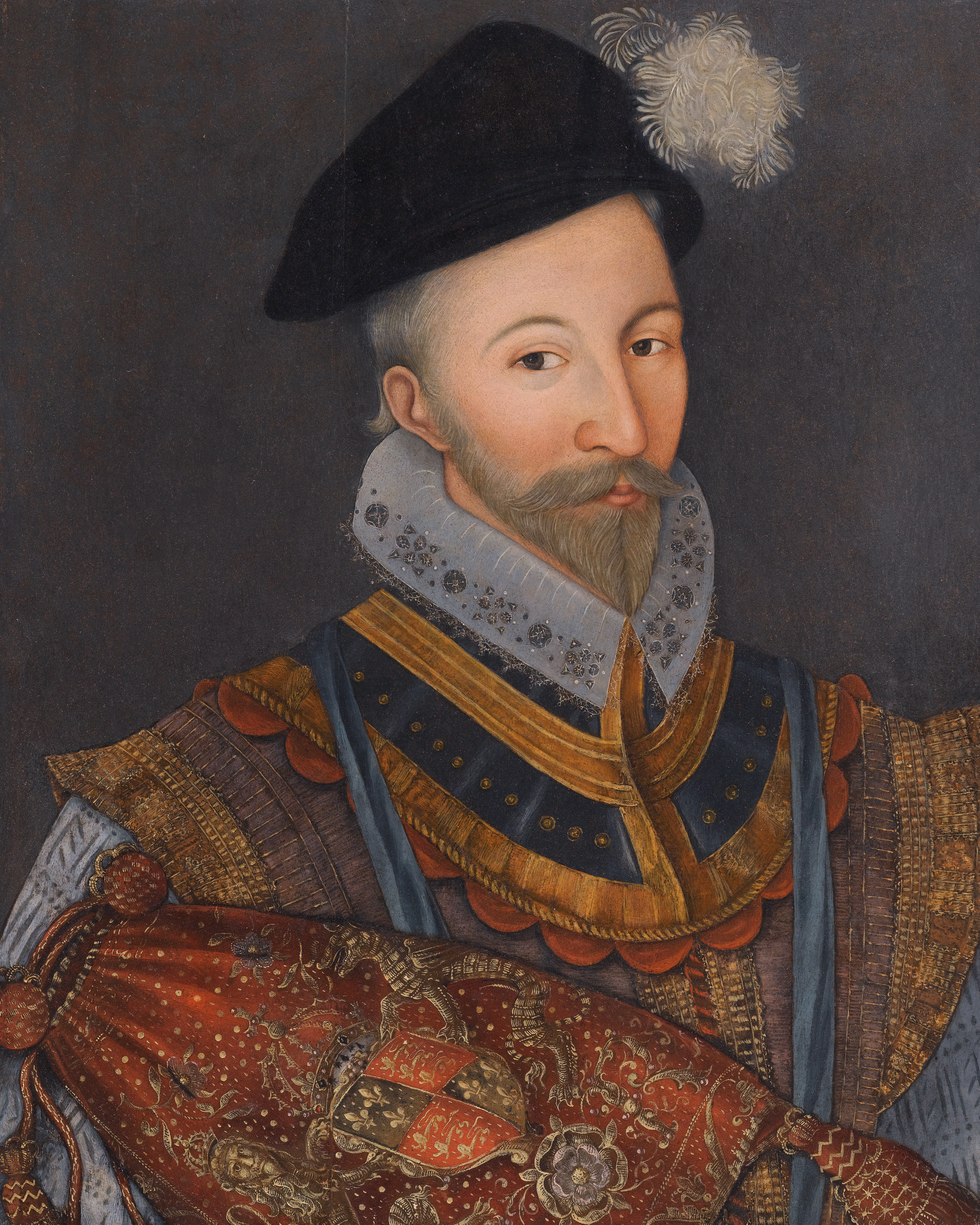 William Howard (c.1510-1573), 1st Baron Howard of Howard of Effingham oil on panel 70 x 55 cm